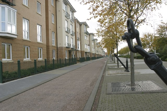 Lloyd George Avenue - Cardiff’. Lloyd George Avenue development won for its contractors Norwest Holst, the Arts & Business Cymru Award for Best Sponsor of New Work in 2001. The work is manifest as a mile long streetscape incorporating paving and street furniture.